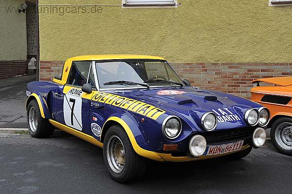 See more Fiats at Collector Car Ads